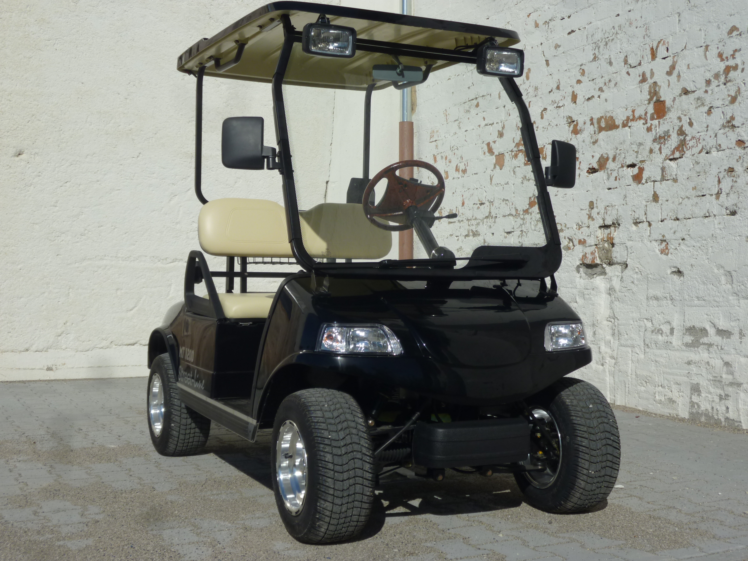 A MT 1200 Streetline